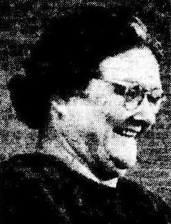 NSW MP for Newtown Lilian Fowler. Photograph from Melbourne Argus, 3 June 1944